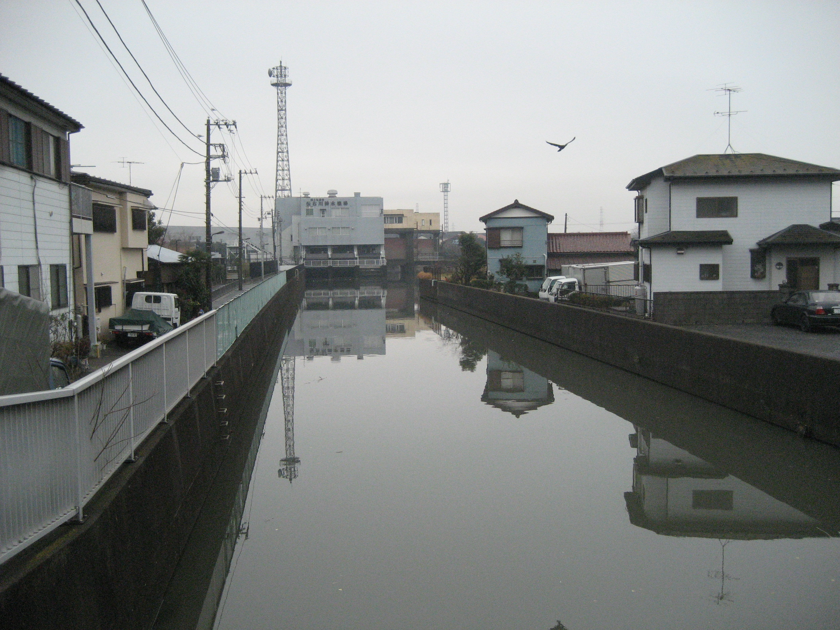 Den'u River. Adachi ward, Tokyo, Japan.